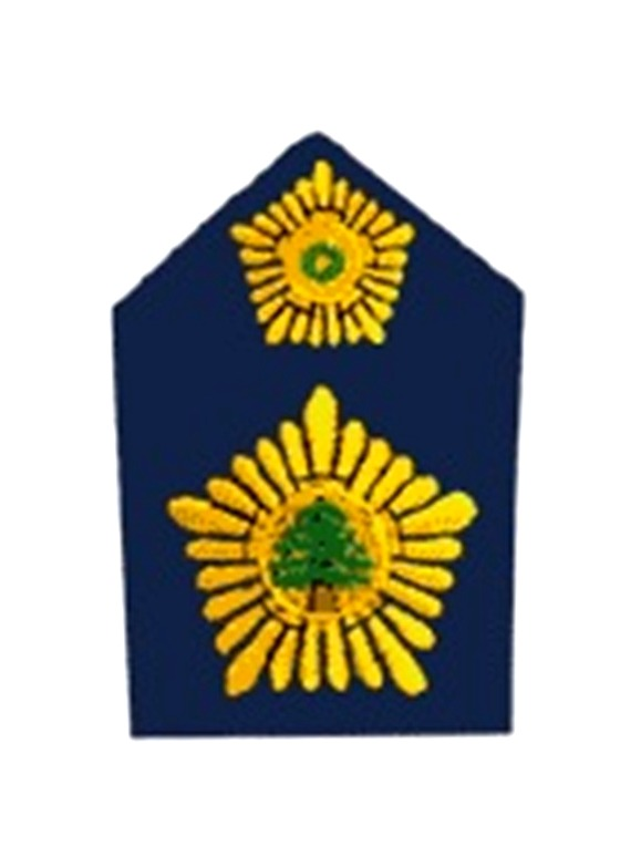 Lebanese Army's Insignia of First Adjutant (Non-commissioned Officer Rank)